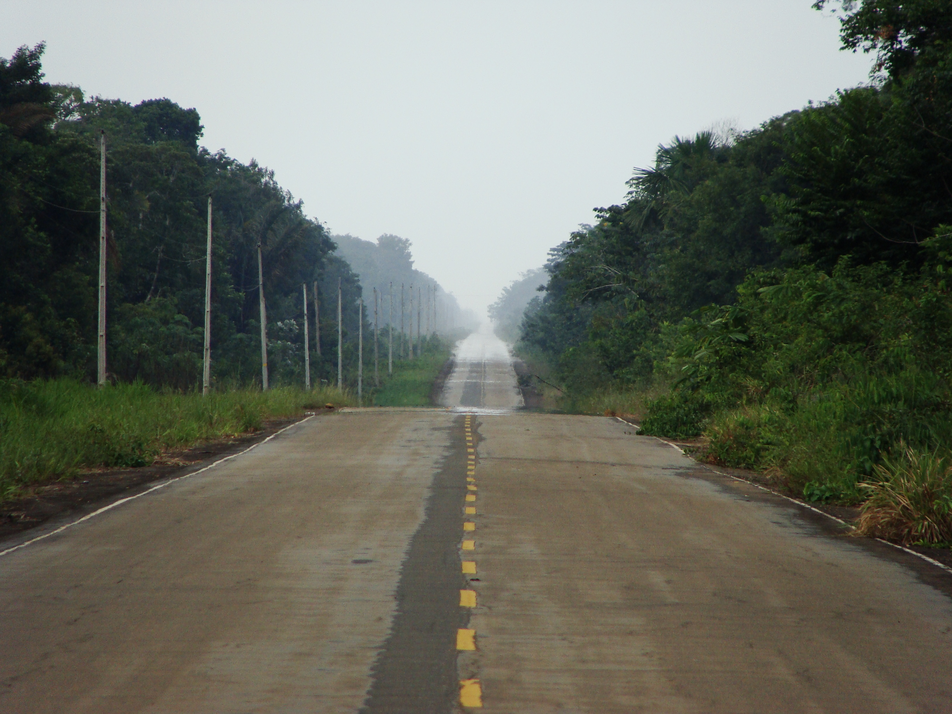 The road ahead